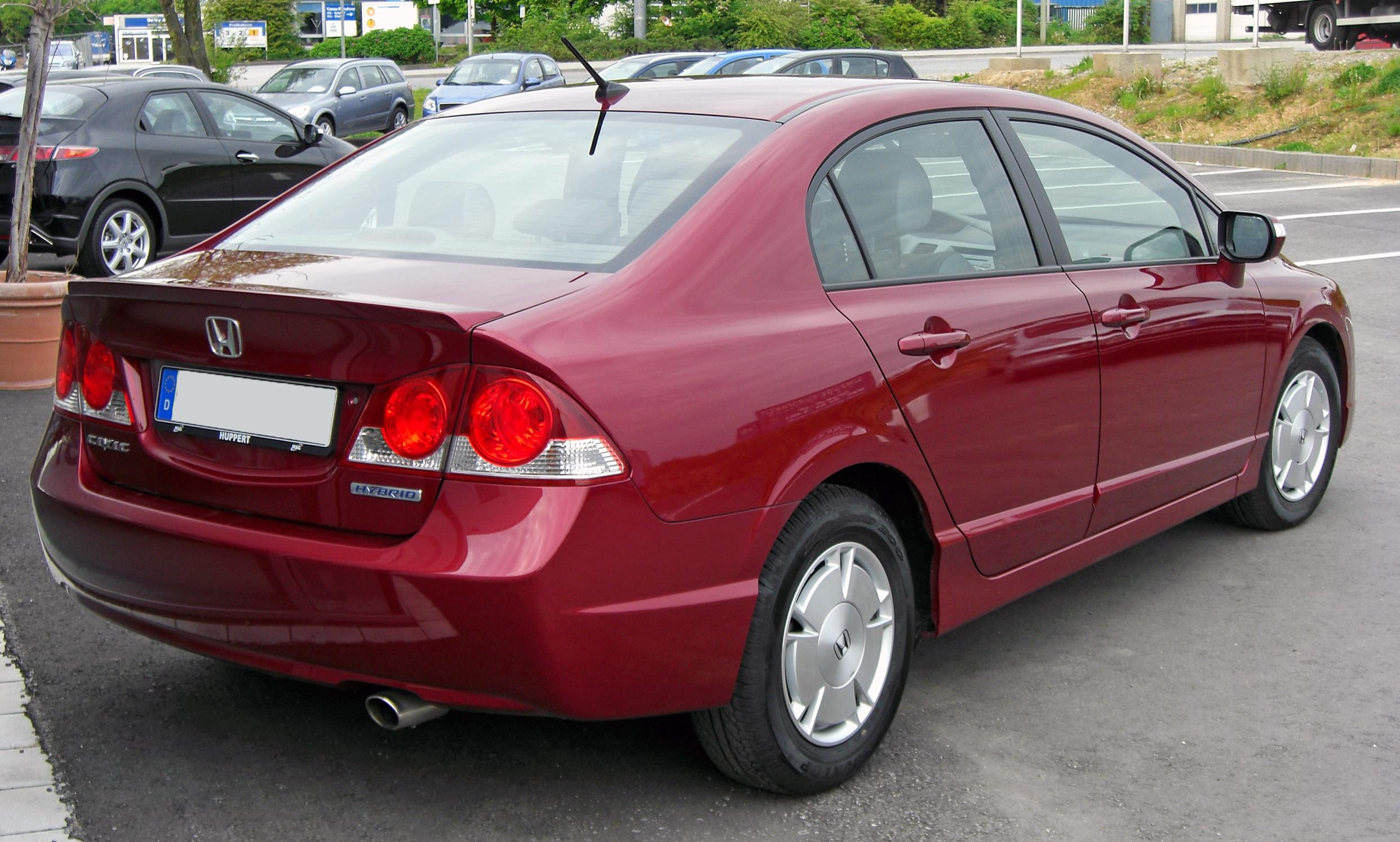 Honda Civic Hybrid